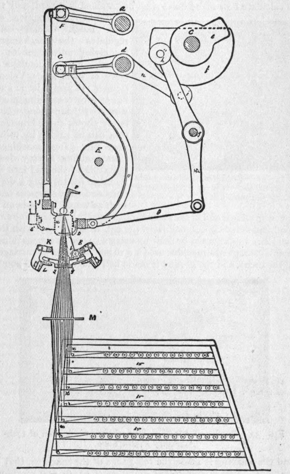 Fig. 49.--Section of Lace Machine. E is the cylinder or beam upon which the lace is rolled as made, and upon which the ends of both warp and weft threads are fastened at starting. Beneath are w, w, w, a series of trays or beams, one above the other, containing the reels of the supplies of warp threads; c, c represent the slide bars for the passage of the bobbin b with its thread from k to k, the landing bars, one on each side of the rank of warp threads; s, t are the combs which take it in turns to press together the twistings as they are made. The combs come away clear from the threads as soon as they have pressed them together and fall into positions ready to perform their pressing operations again. The contrivances for giving each thread a particular tension and movement at a certain time are connected with an adaptation of the Jacquard system of pierced cards. The machine lace pattern drafter has to calculate how many holes shall be punched in a card, and to determine the position of such holes. Each hole regulates the mechanism for giving movement to a thread. Illustration from 1911 Encyclopædia Britannica, article Lace.